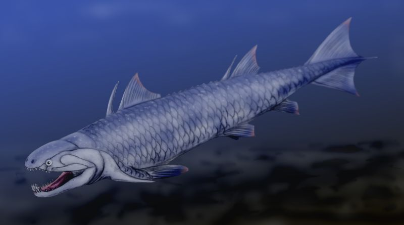 Psarolepis romeri, an onychodontiform fish from the Early Devonian/Late Silurian of China, digital